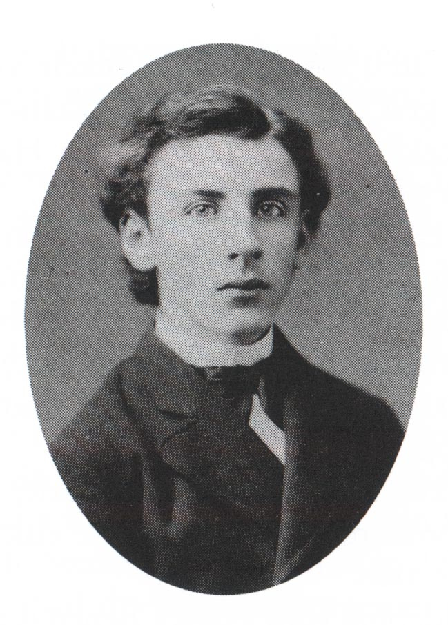 snouck hurgronje when he was young